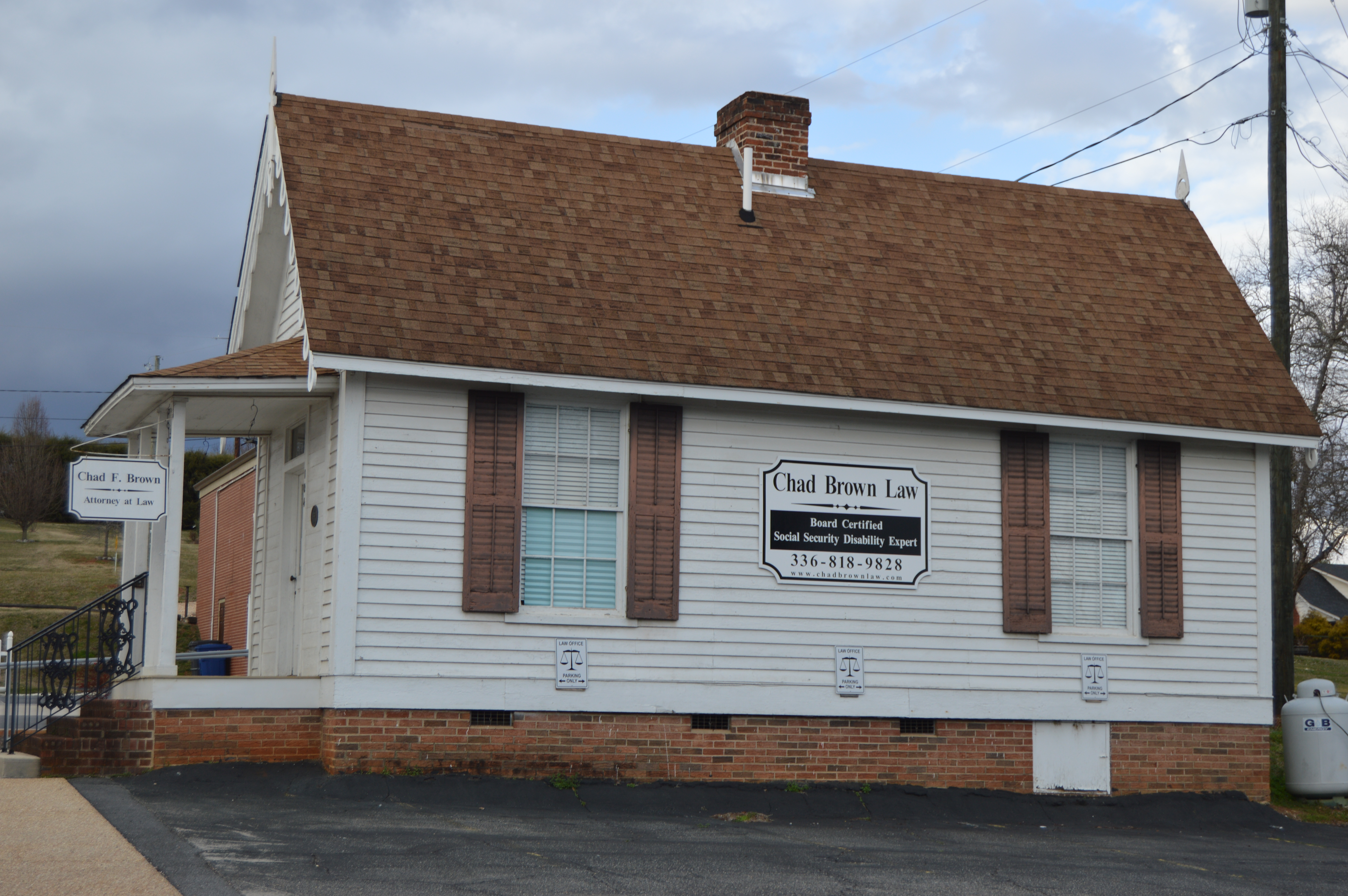 Southern side of the Thomas B. Finley Law Office, located along Broad Street at North Street in Wilkesboro, North Carolina, United States. It is listed on the National Register of Historic Places.